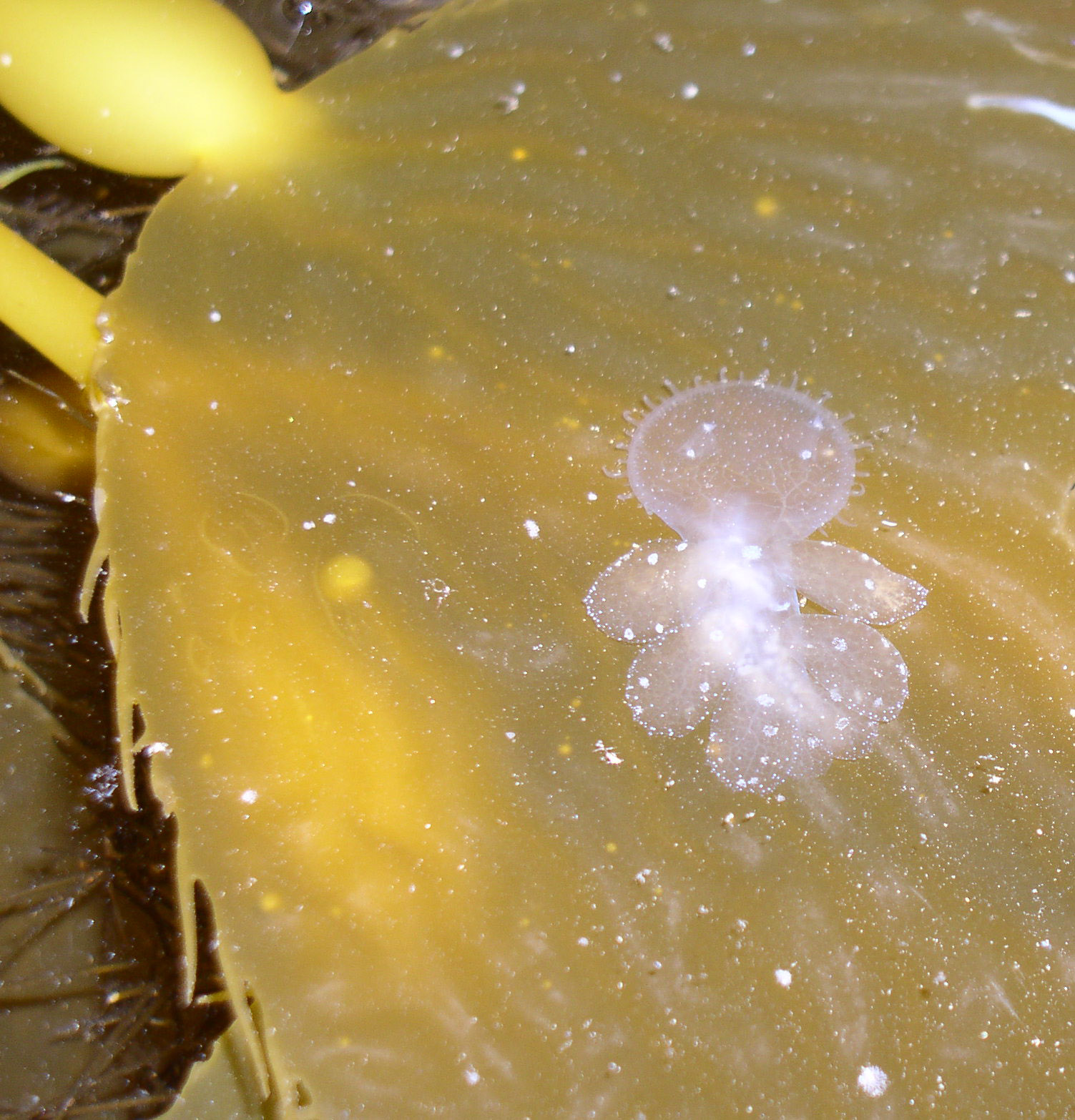 image taken by author in southern California, not posted elsewhere online